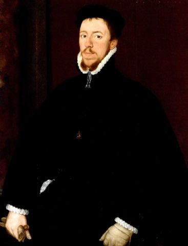 Portrait of Thomas Howard 4th Duke of Norfolk. Dated 1565.